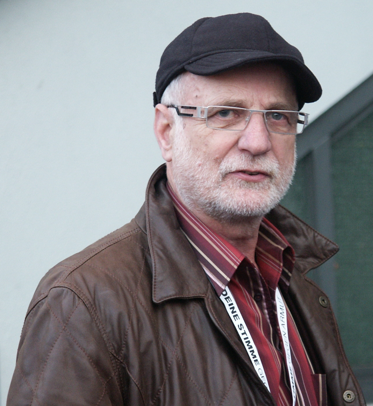 German football reporter Günther Koch at a match in the arena in Nuremberg